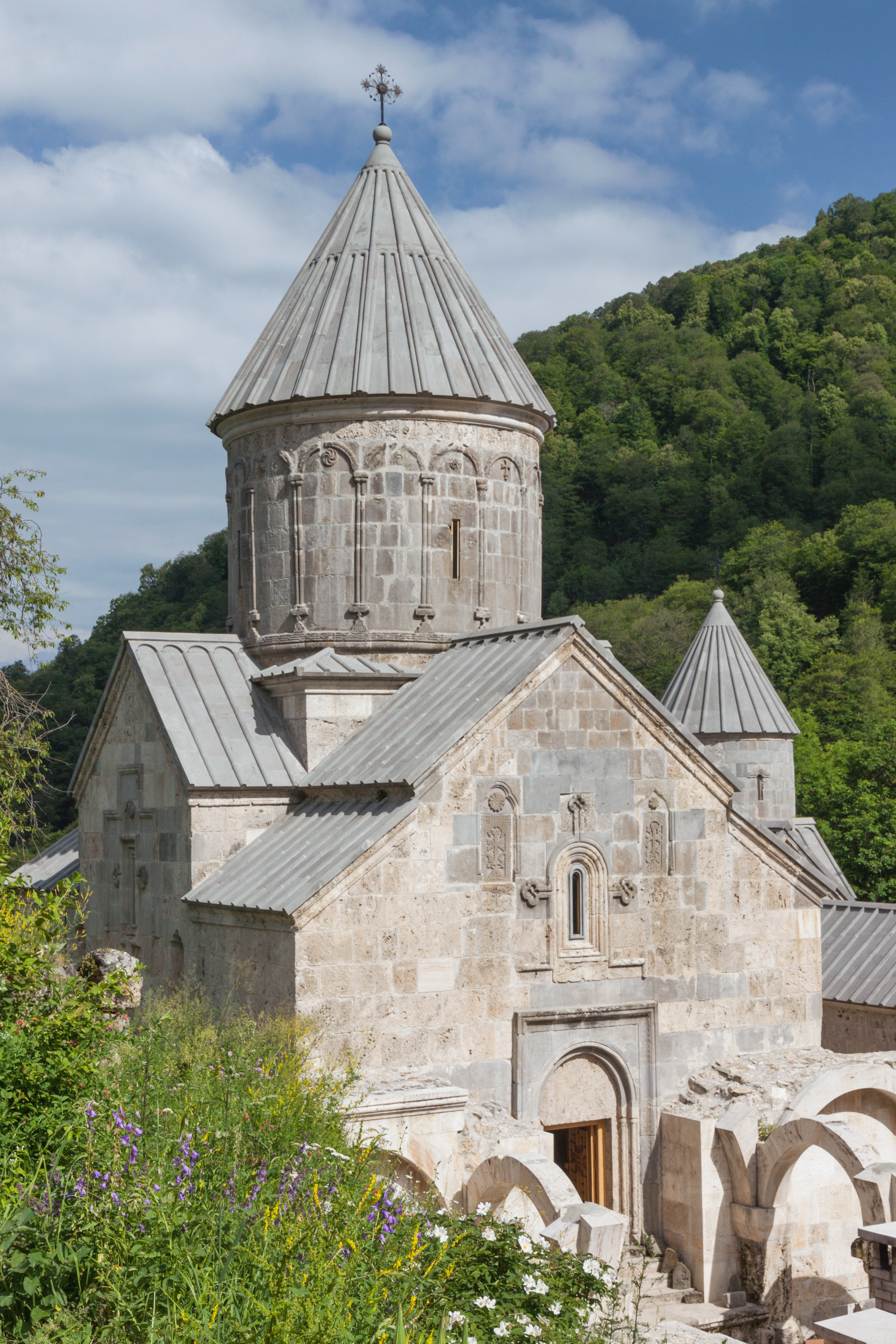 Holy Mother of God church (Surb Astvatsatsin). Haghartsin Monastery. Dilijan National Park, Tavush Province, Armenia.